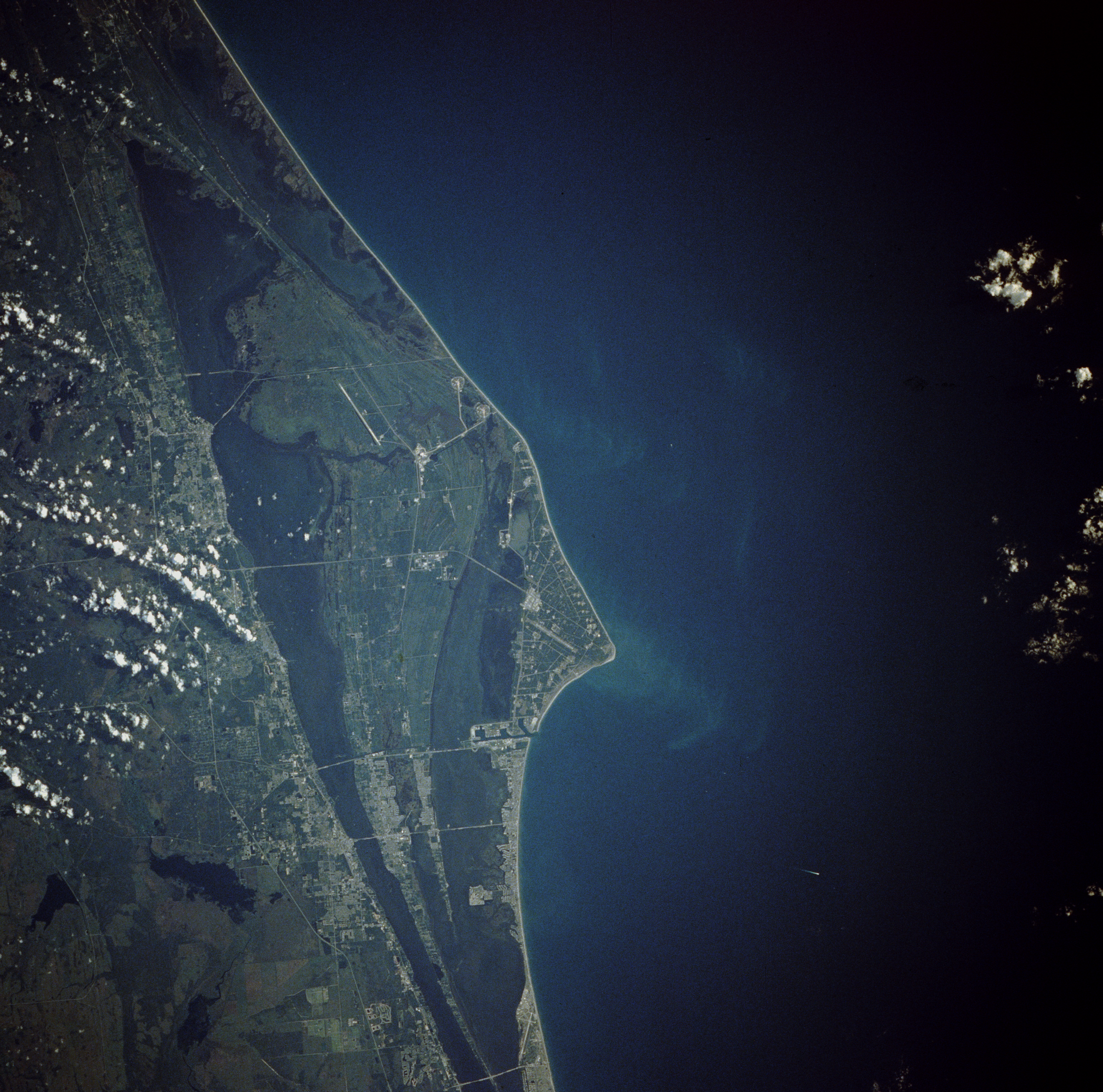 Cape Canaveral, Florida, and the NASA John F. Kennedy Space Center are shown in this near-vertical photograph. Numerous launch pads line the Atlantic Ocean coast near the center of the photograph. To the north of the multiple launch pads, the Space Shuttle landing runway, the Shuttle Assembly Area, and Shuttle Launch Pads A and B are visible. To the south of the multiple launch pads are Port Canaveral and the city of Cocoa Beach, Florida. To the west of the space complex, five causeways span the Indian and Banana Rivers. Interstate Highway 95 is the main artery traversing south to north just west of the Florida cities of Cocoa and Titusville.